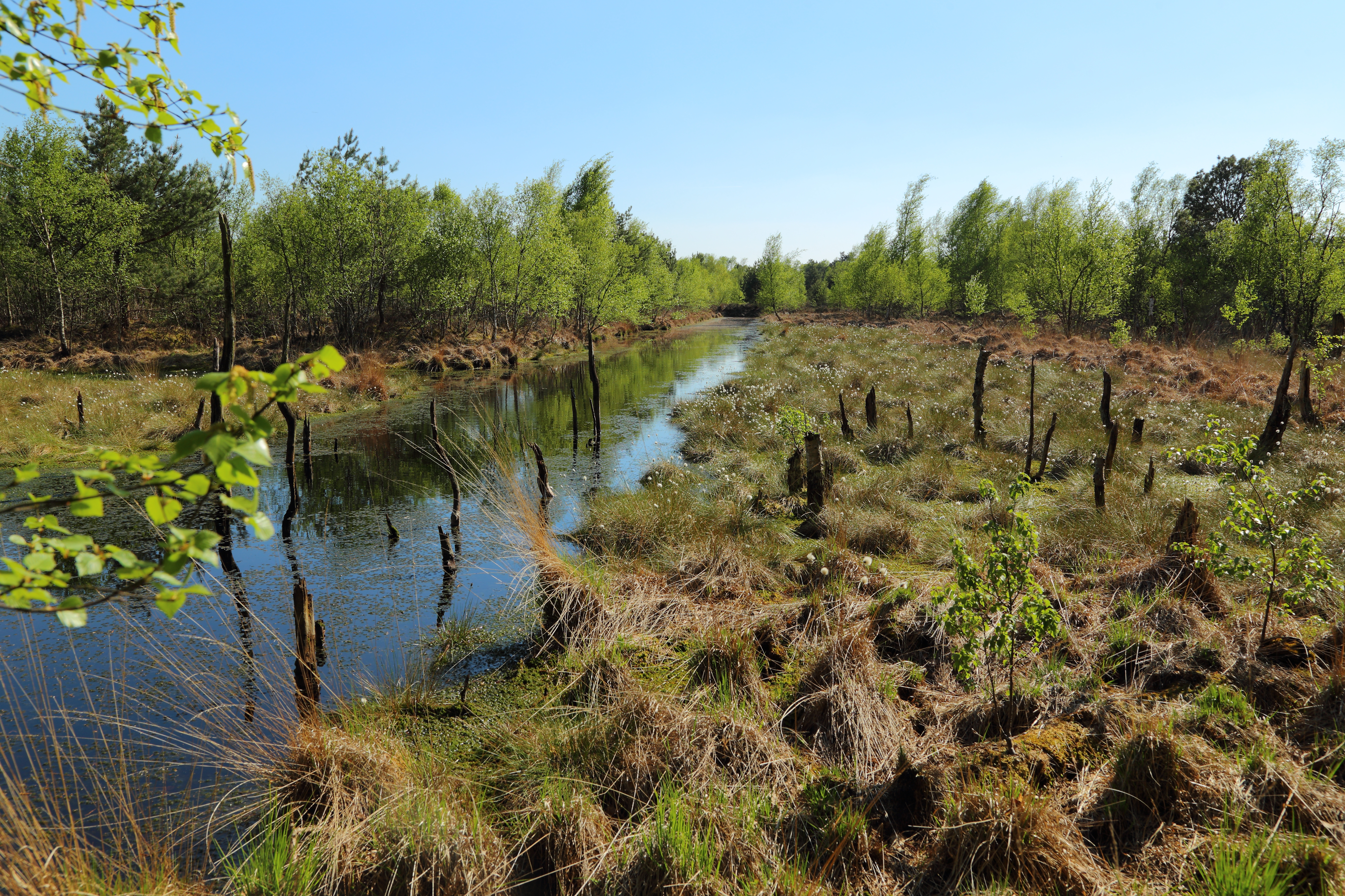 At the nature reserve Hahnenmoor, a large bog area near Herzlake, Landkreis Emsland, Lower Saxony, Germany.